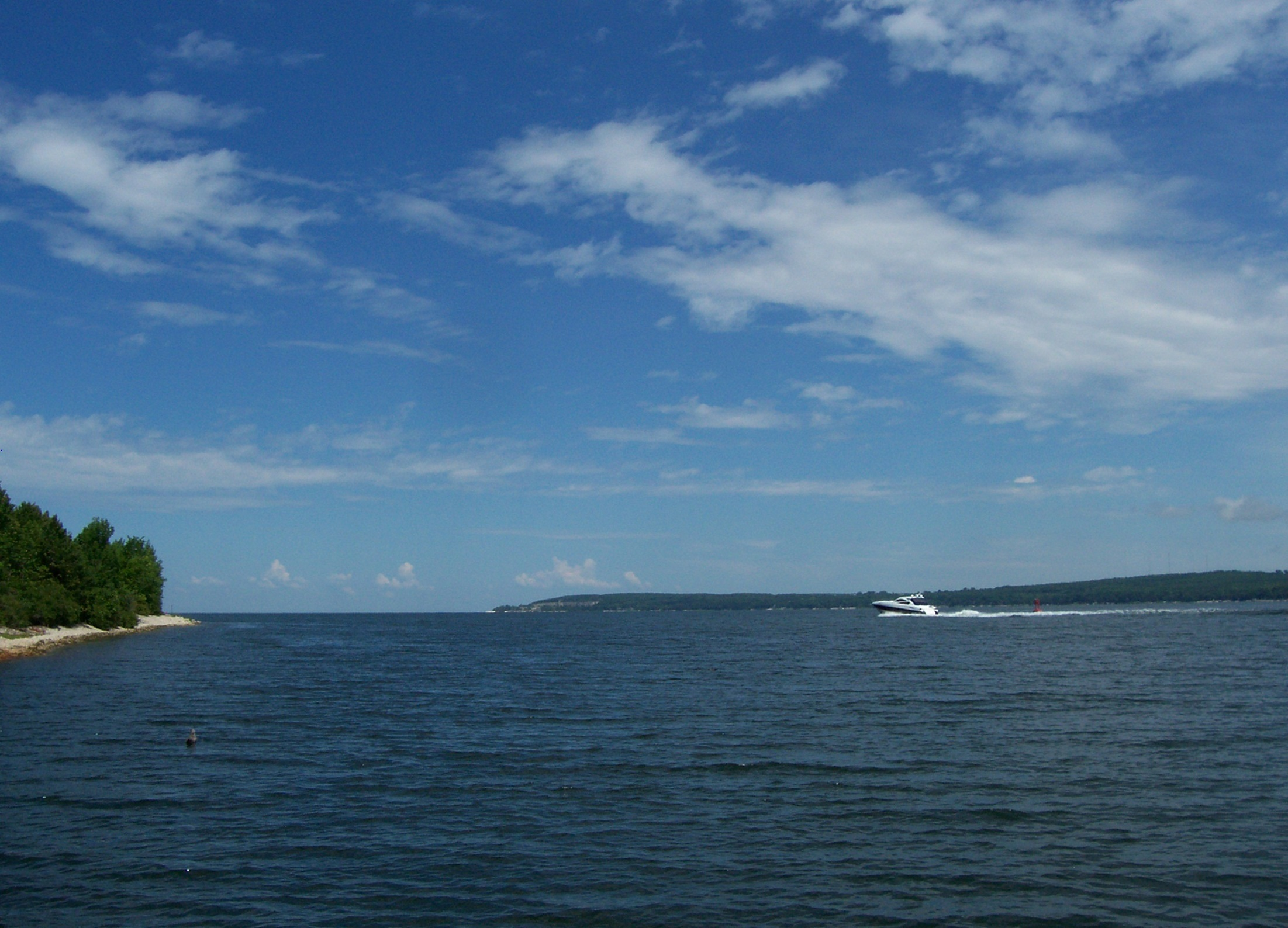 Looking northwest at the mouth of the Sturgeon Bay, a bay in the Bay of Green Bay on Lake Michigan near Sturgeon Bay, Wisconsin from Potawatomi State Park.